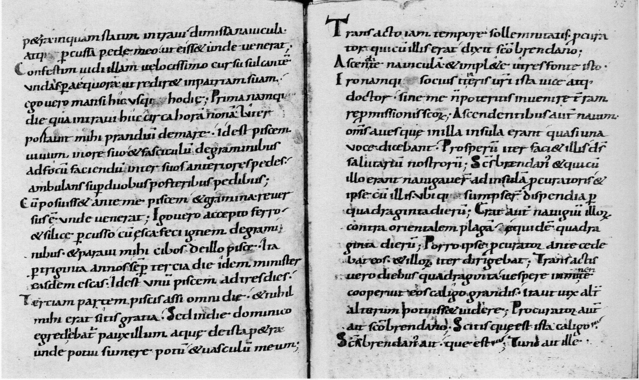 Navigatio sancti Brendani. Manuscript Bavarian State Library, Clm 17740, fol. 34v–35r.